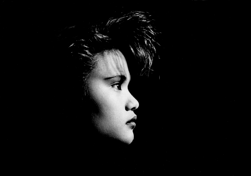 Low-key image, 35mm black-and-white film.